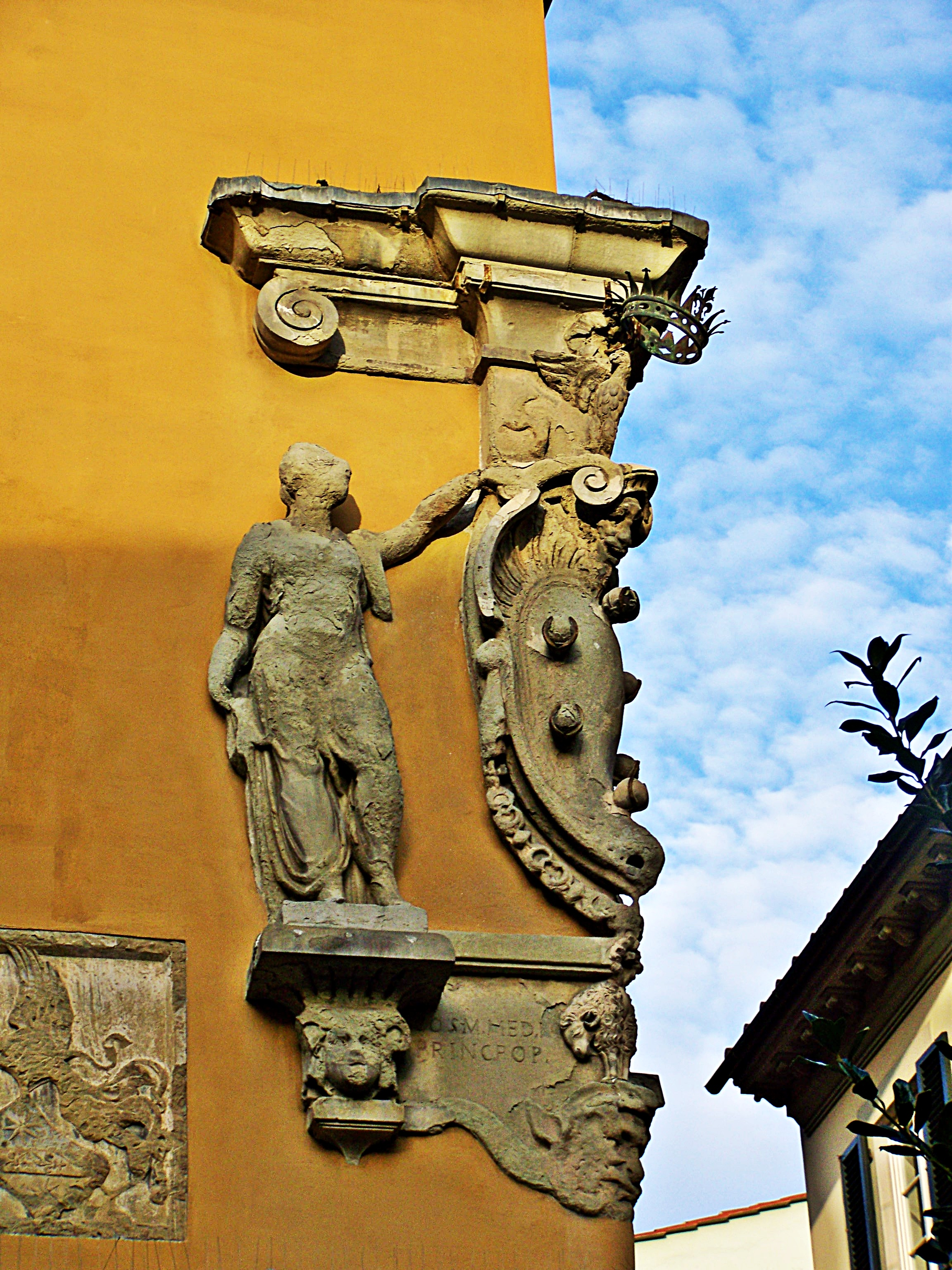 coat of arm